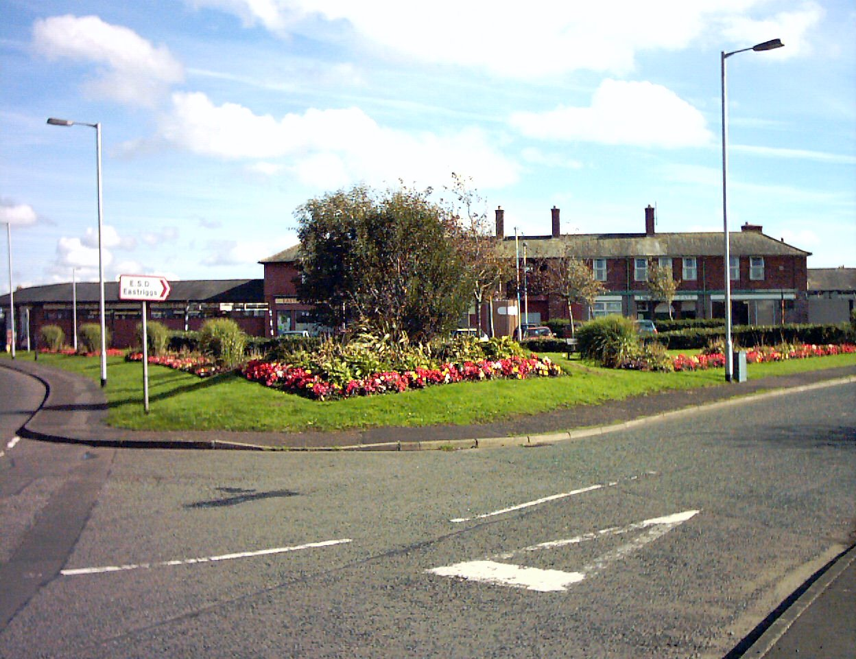 Approach to Eastriggs from the west showing shops behind the flower beds and green, and signpost to "ESD Eastriggs". Taken by me September 30th 2006.